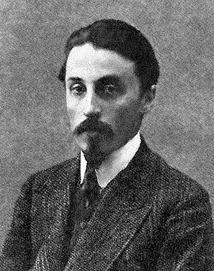 Russian writer Boris Zaitsev